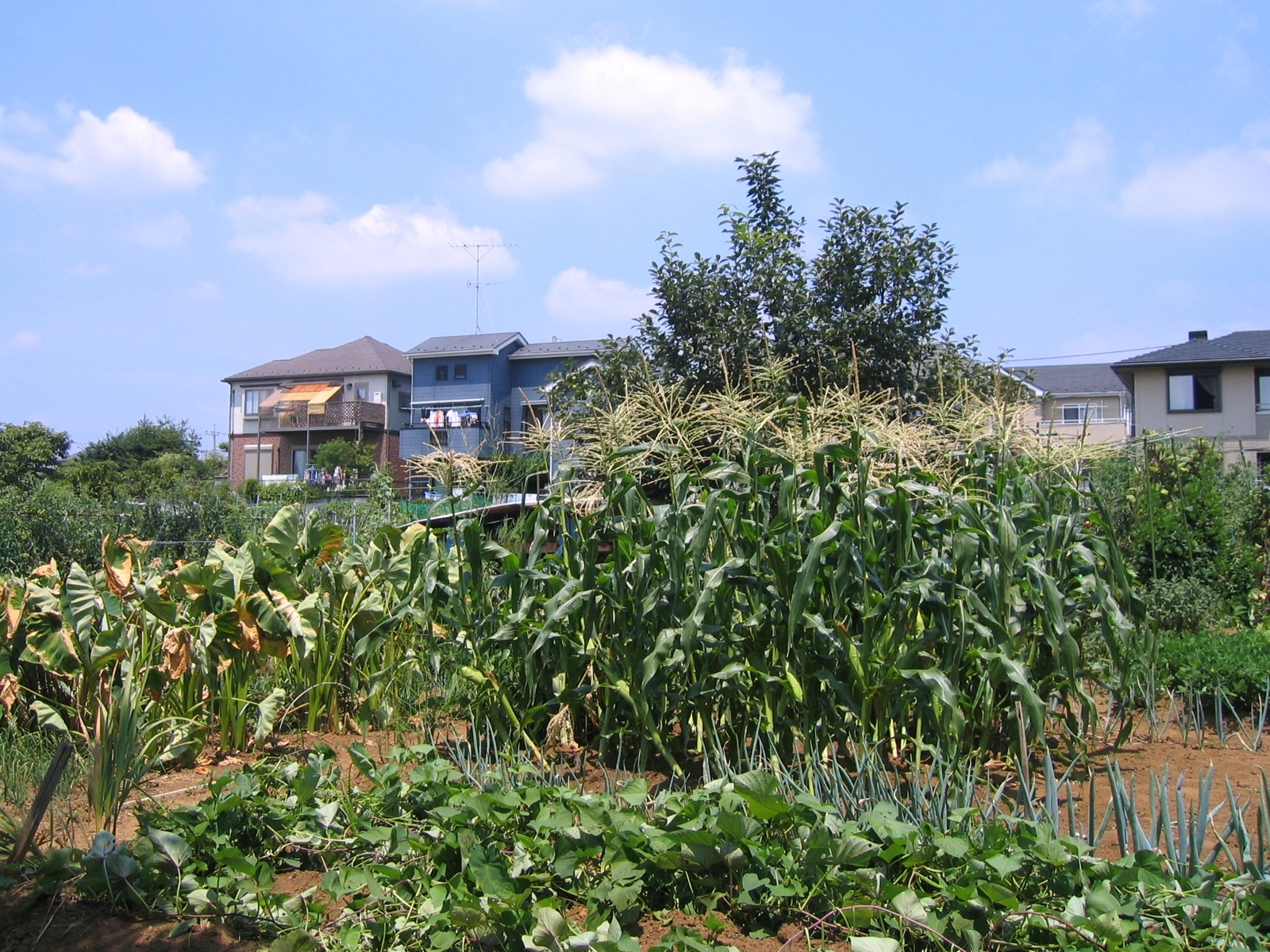 a vegetable field in a residential area, Yakushidai, Machida, Tokyo, Japan